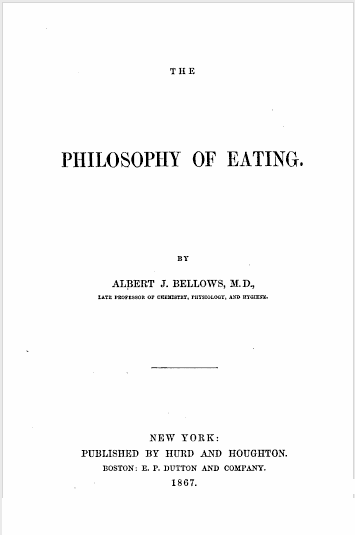 The Philosophy of Eating book cover